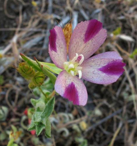 Clarkia purpurea subsp. quadrivulnera (winecup clarkia) — in the chaparral, western Santa Monica Mountains. At Circle X Ranch: Canyon view trail, Santa Monica Mountains National Recreation Area, California.